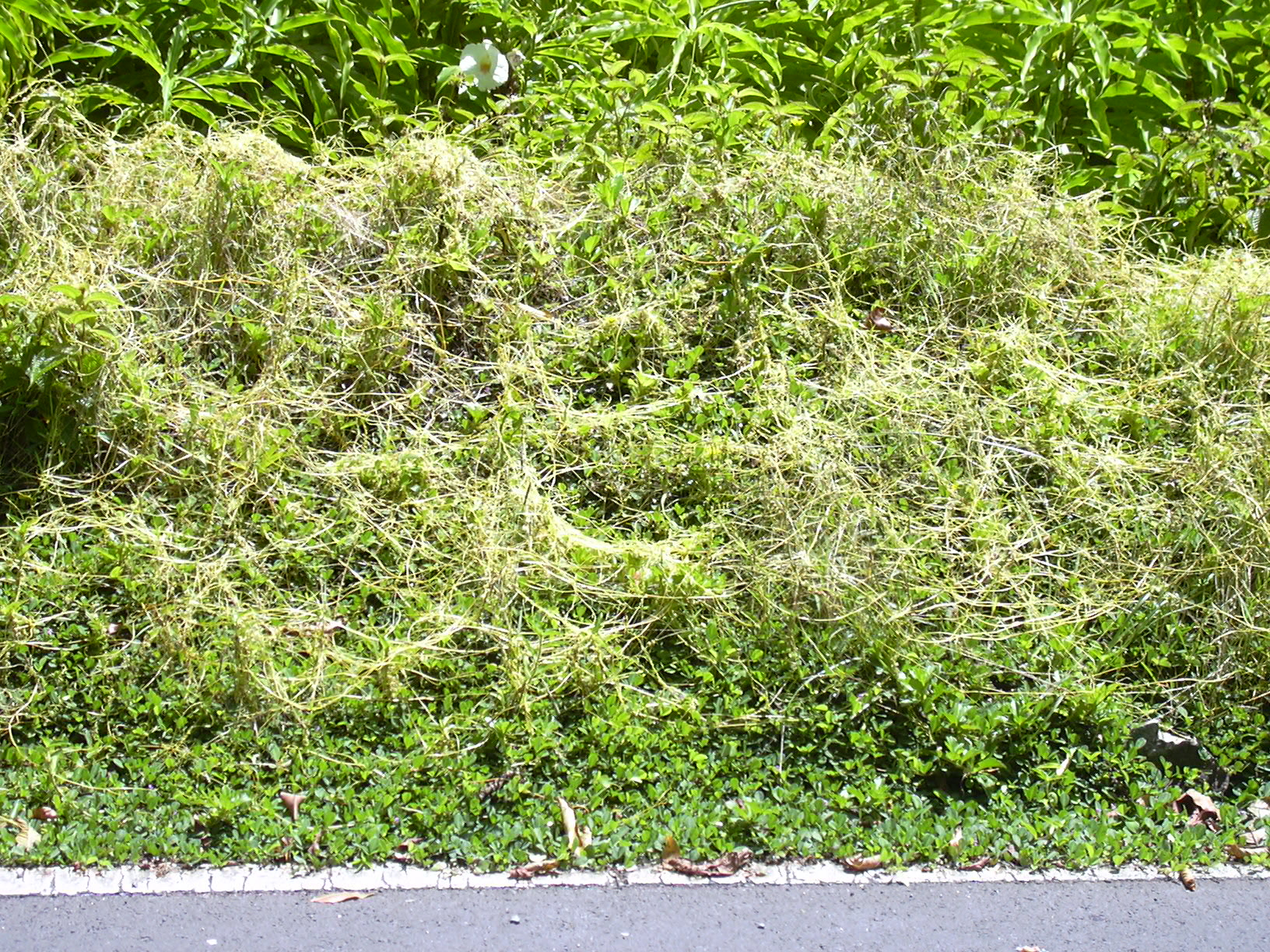 Cuscuta campestris (habit). Location: Maui, Hana Hwy